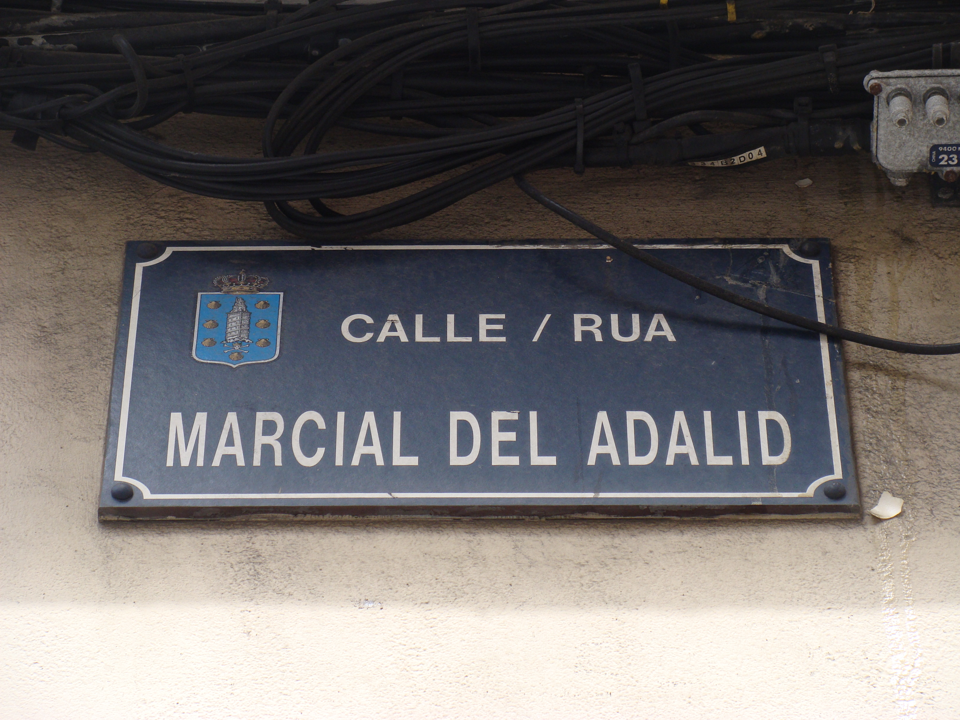 Marcial del Adalid street sign in A Coruña, Galicia, Spain.